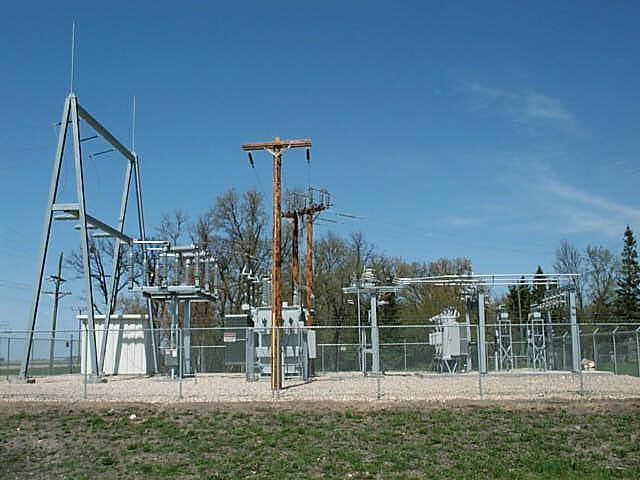 Electrical Substation, Warren Minnesota The incoming 115 kV transmission line enters on the left and terminates on the A-frame structure. A circuit switcher (like a circuit breaker) is mounted on the pedestal to the right of the A-frame. A step-down 5000 kVA transformer near the center of the station reduces voltage to 41.6 kV and 12.47 kV. The 41.6 kV circuit connected to the original substation by a short transmission line built on wooden poles. The 12.47 kV bus connection continues to the right through a disconnect switch and three voltage regulators with bypass switches. The structure on the right hand side supports the 12.47 kV bus and the four reclosers (like a circuit breaker) that distribute power to the 12.47 kV buried cable circuits. Behind the A-frame to the left is the control building that contains the protection relays and controls for the station, as well as a supervisory control (SCADA) terminal. In the left background is a 41.6kV transmission line that supplied the city before construction of the 115kV line in 1999. Photo taken June 2001